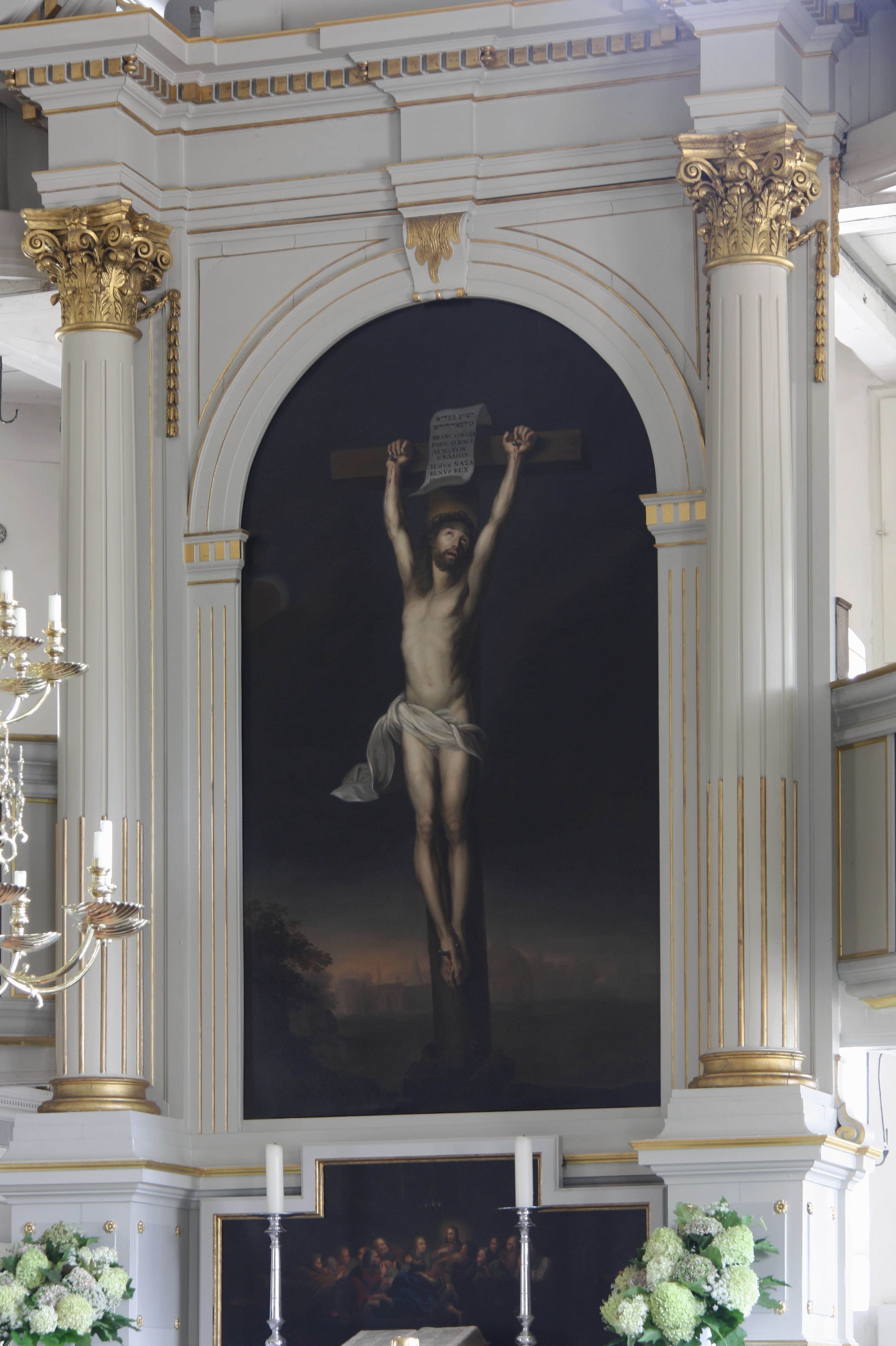 Church St. Severini, Hamburg-Kirchwerder, interior, detail of altar